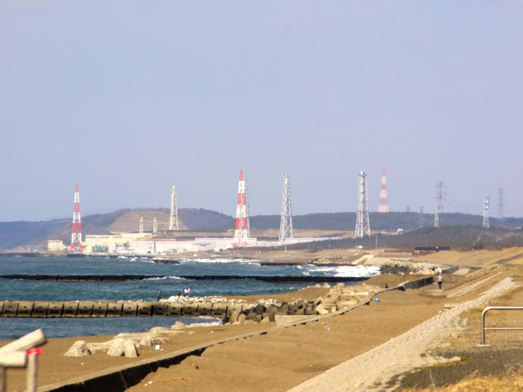 Expansion image around nuclear power plant.